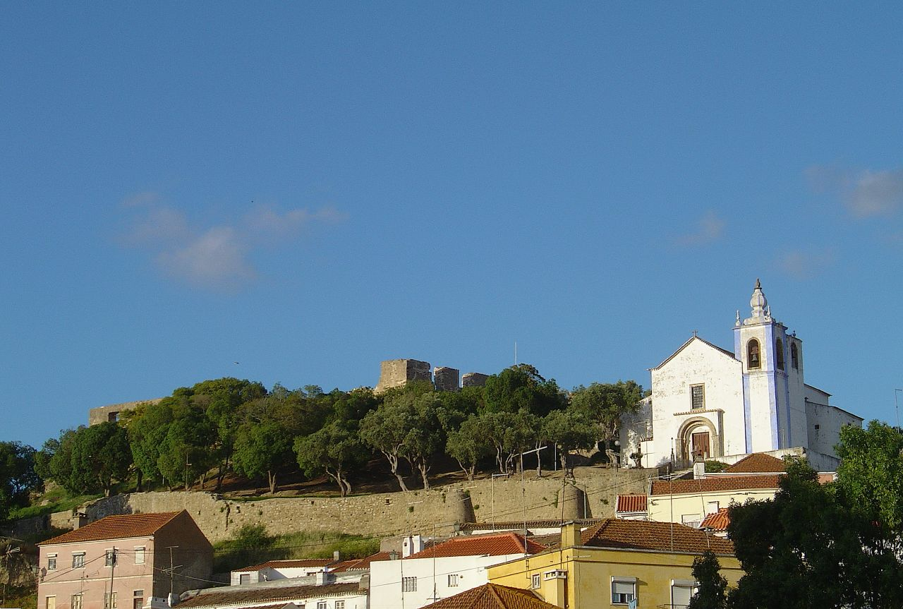 View of the castle of Torres Vedras and Church of Santa Maria, Portugal